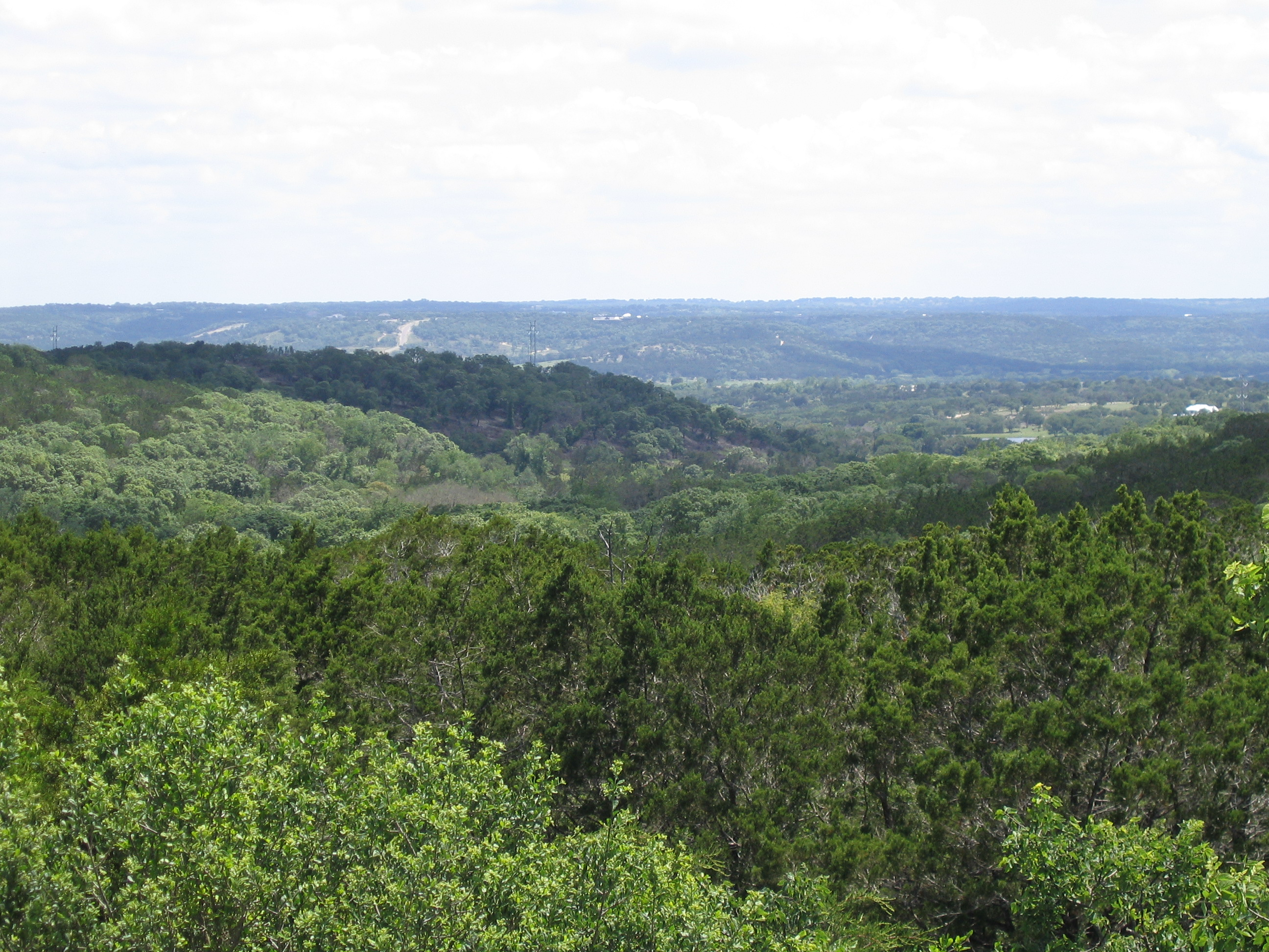 Texas Hill Country, as seen from a "scenic overlook" rest area on Interstate 10. Taken by Mark Nelson, May 19, 2004.